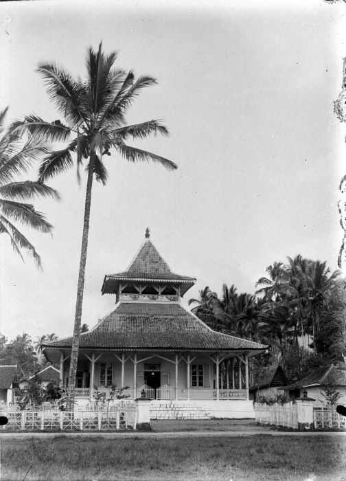 Mosque at Tarogong, Garut